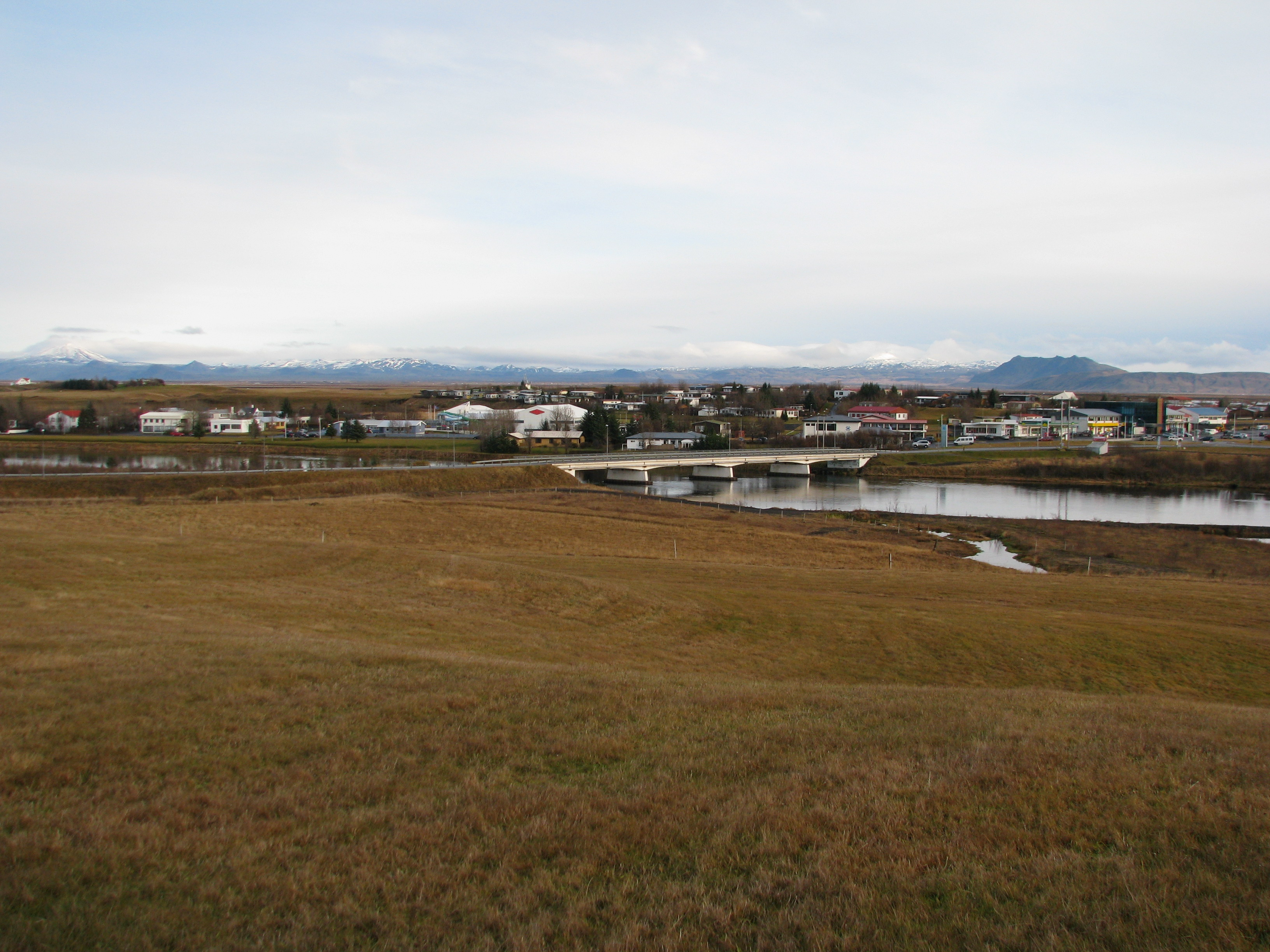 Hella, a small town in Iceland.